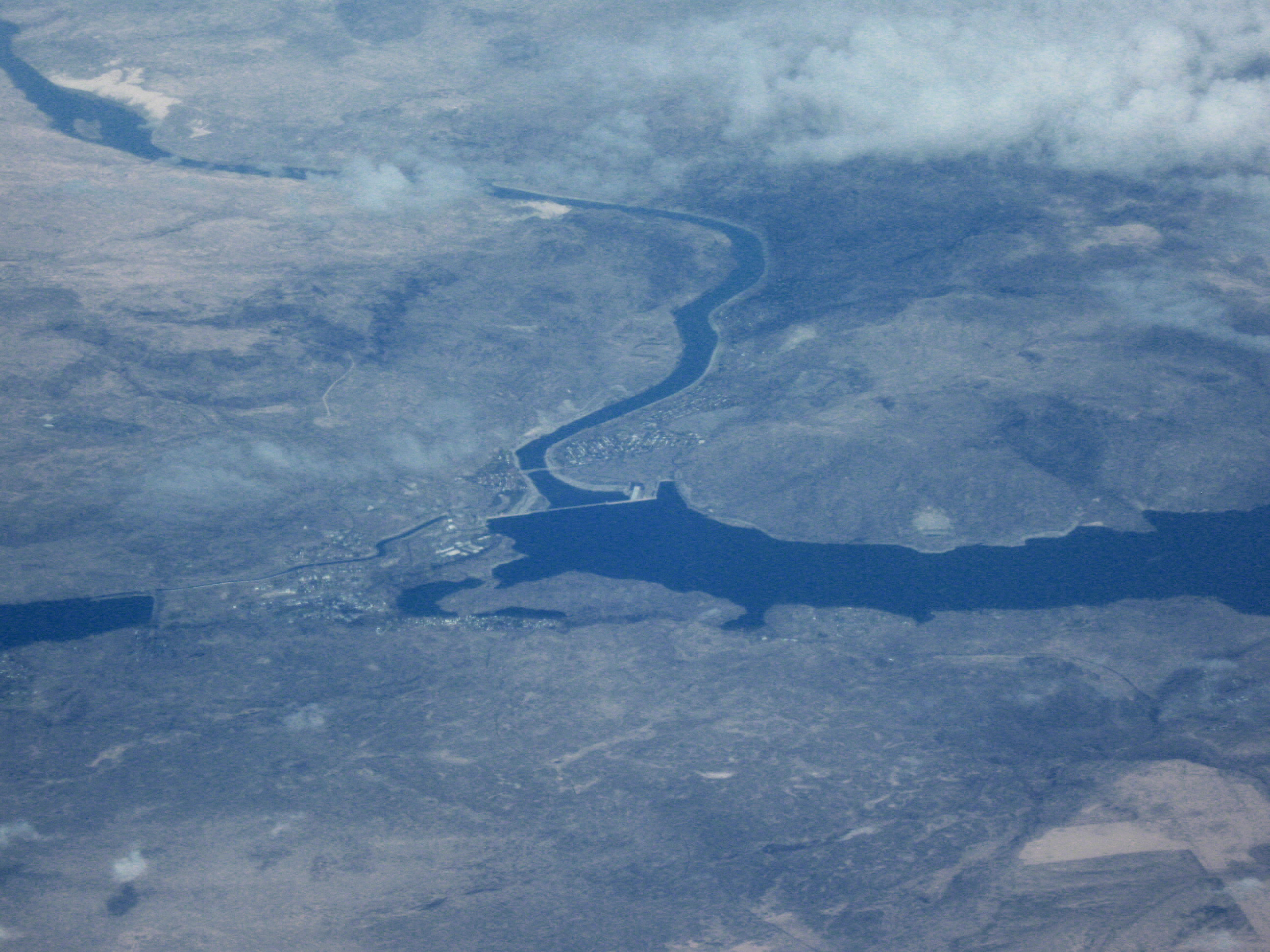 Franklin Delano Roosevelt Lake and Grand Coulee Dam from Northwest Airlines 757 MSP-SEA